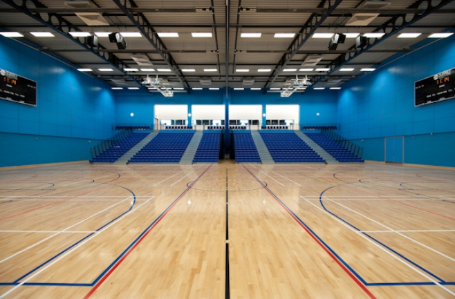 Main hall at Surrey Sports Park, home of Guildford Heat of the British Basketball League.